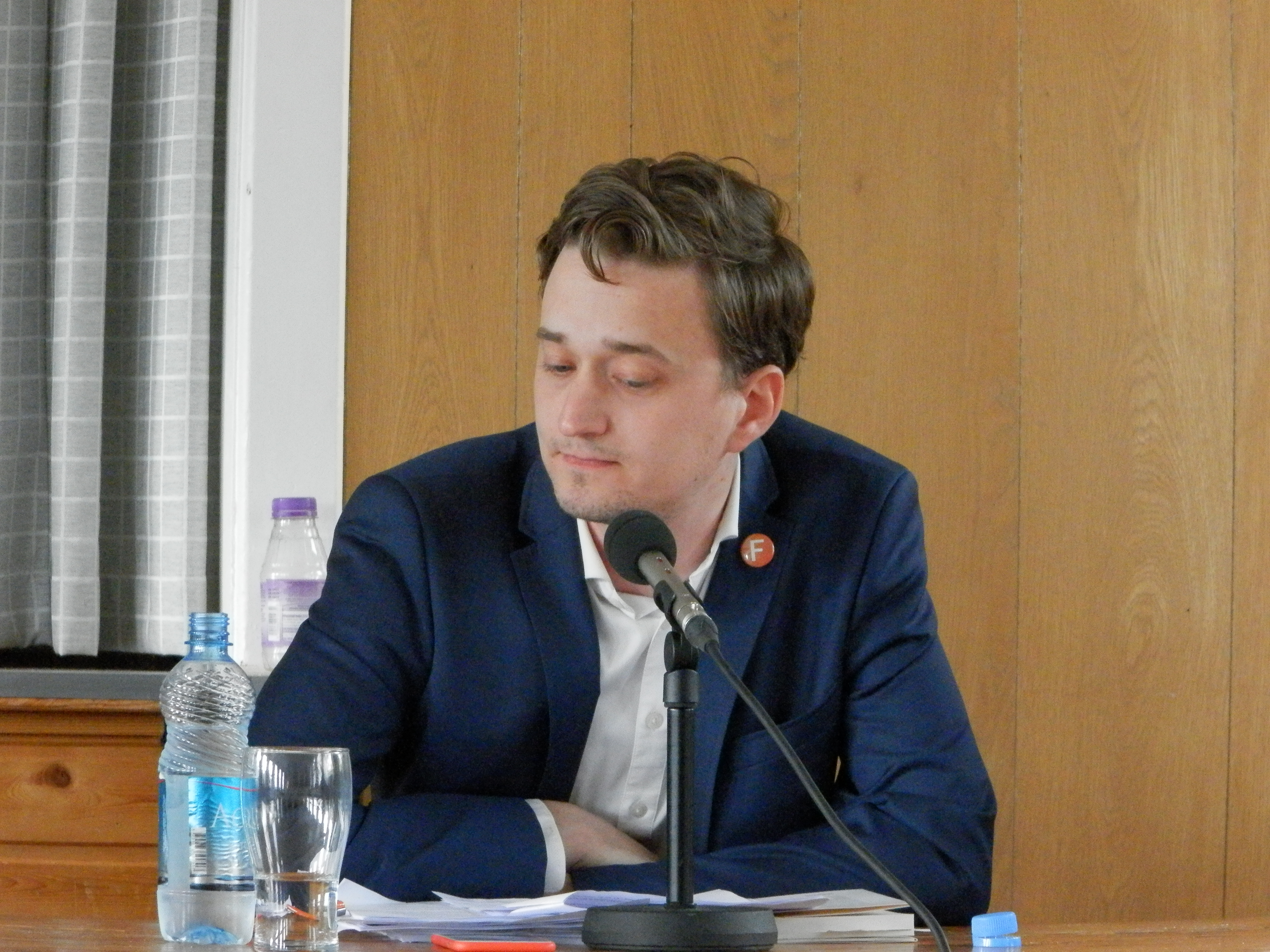 Høgni Reistrup is a Faroese musician, writer and politician.